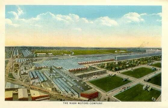 Illustration of the grounds on which the Kenosha Maroons would play.